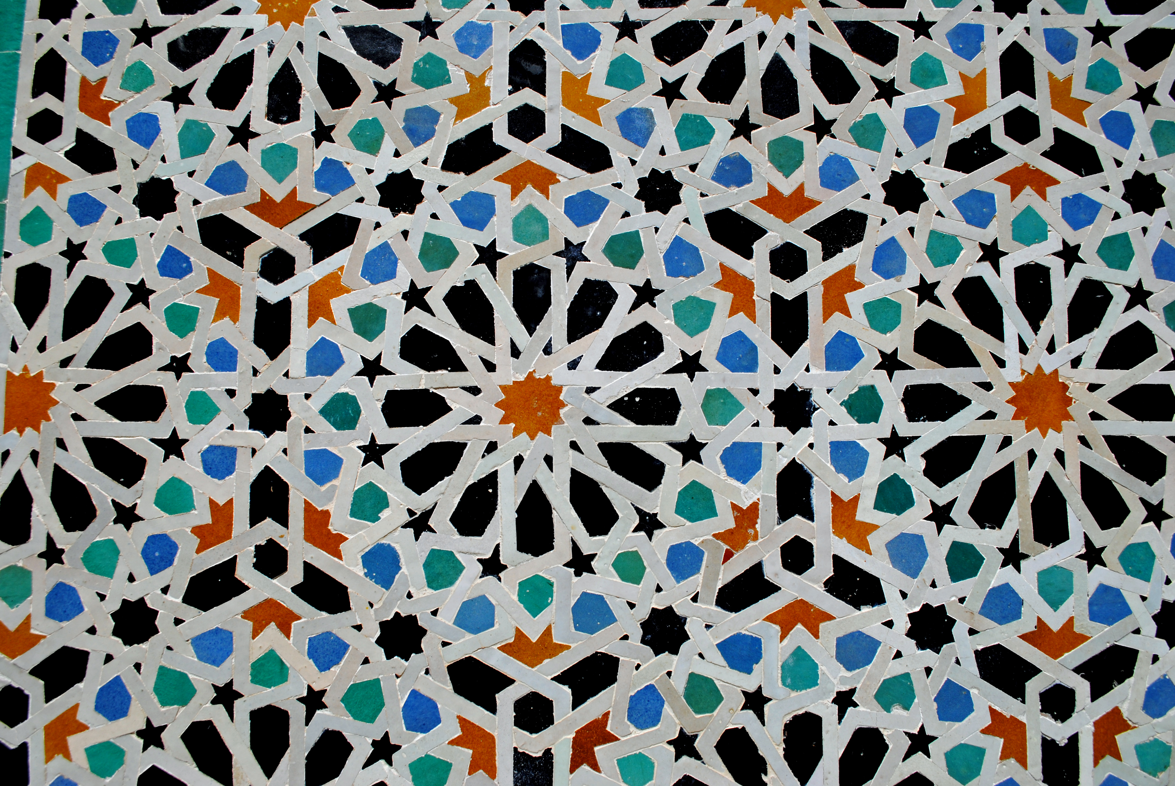 Any space not covered with Koranic verses is covered in colorful zellij.